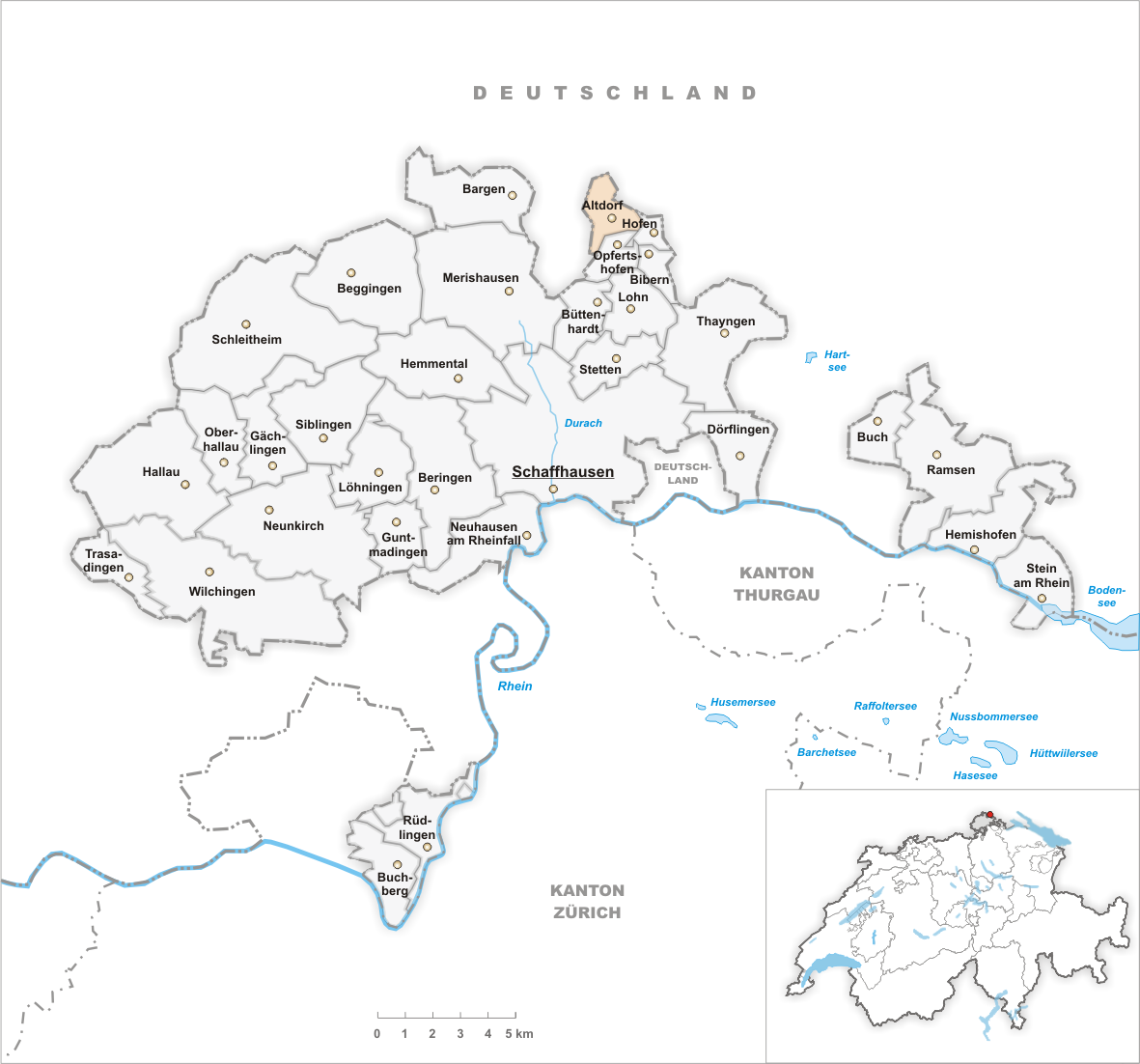 Municipality Altdorf